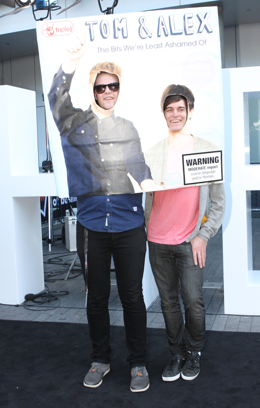 Tom and Alex aka Tom Ballard and Alex Dyson at ARIA Music Awards of 2013 in Sydney, Australia